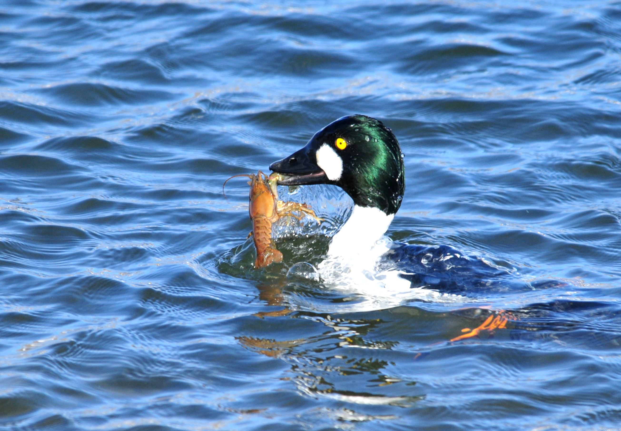 A common goldeneye on Seedskadee NWR returns to the surface of the Green River with a Northern crayfish (Orconectes virilis). Crayfish appear to make up a significant portion of the diet of common goldeneyes wintering on Seedskadee NWR. Photo: Tom Koerner/USFWS